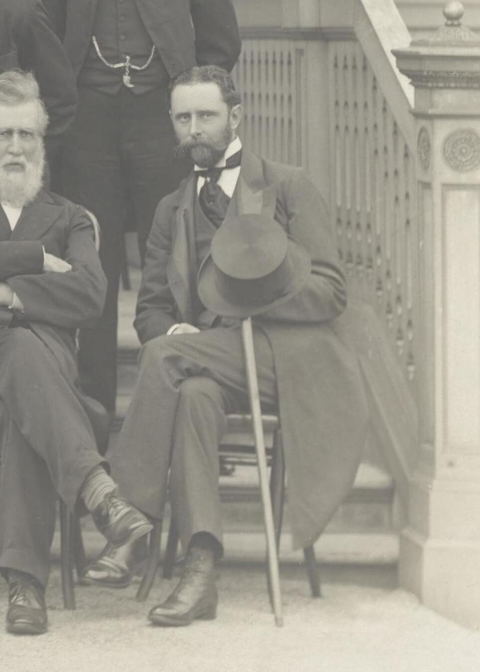 Alexander Matheson, WA delegate to the last meeting of the Federal Council of Australasia